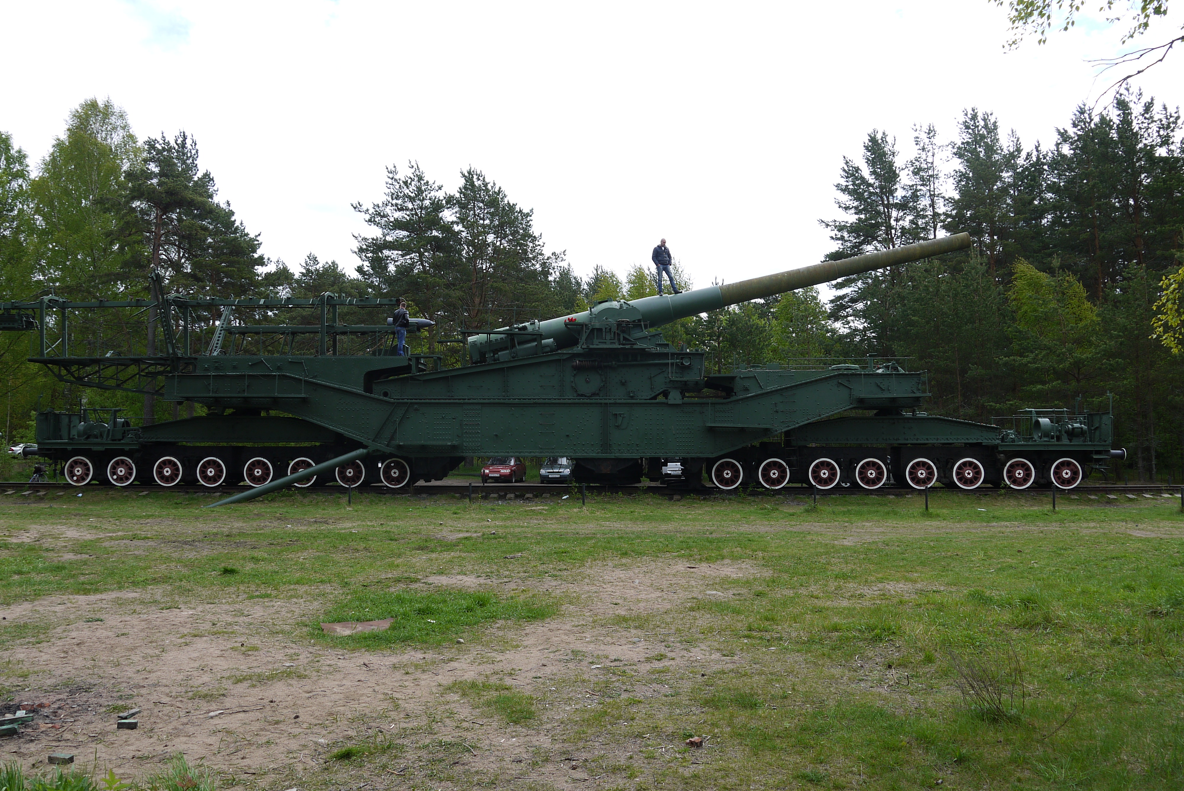 TM-3-12, Krasnaya Gorka fort, Lebyazhye, Leningrad Oblast, Russian Federation